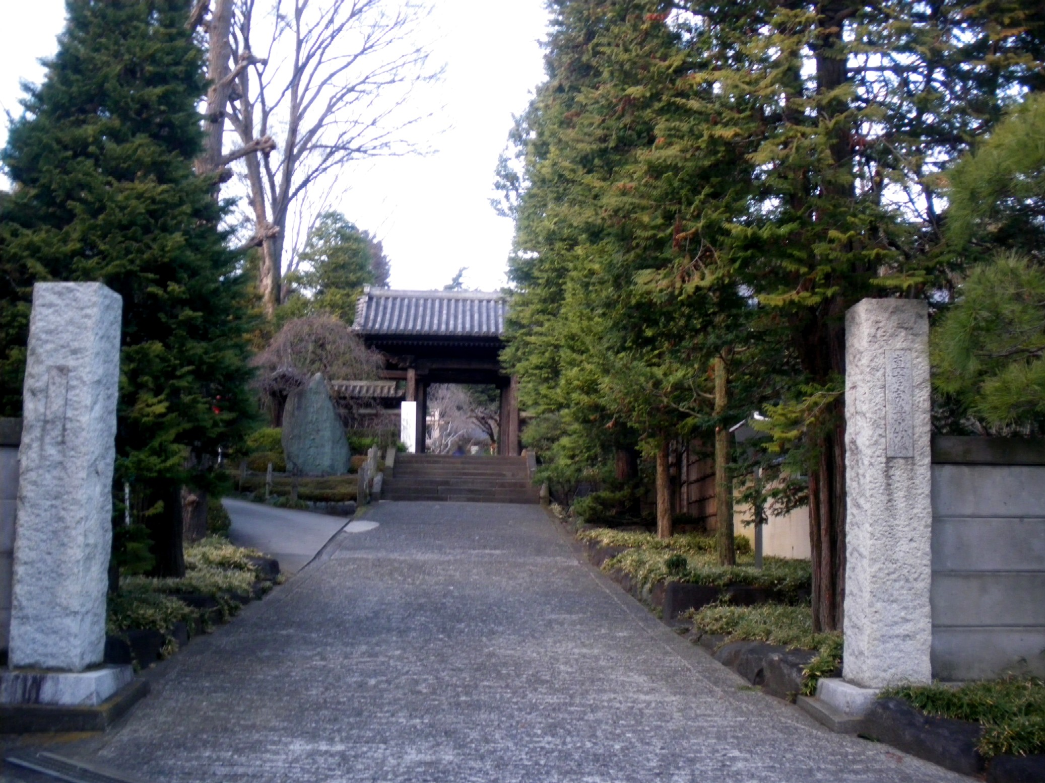 A photo of the entrance of Yakuoin temple,Shimoochiai,Shinjuku-ku,Tokyo,Japan.